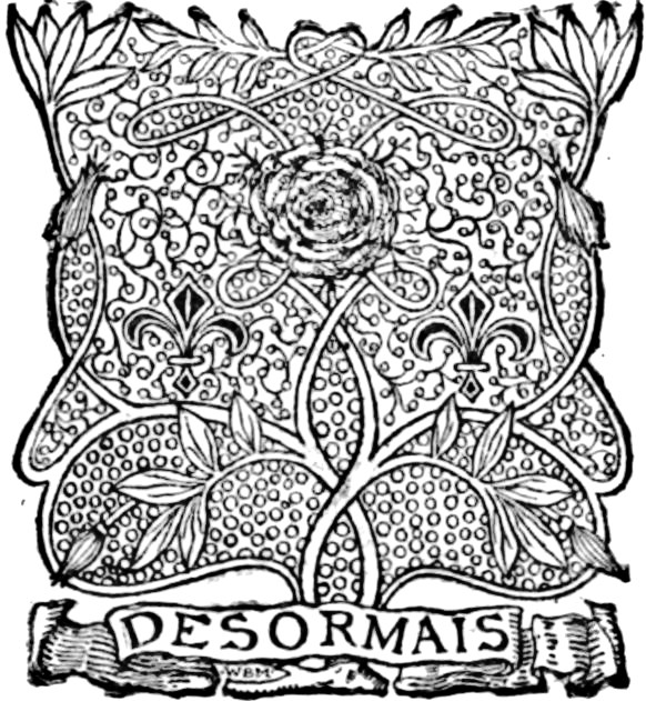 mark appearing on pg. 9 of Studies of a Biographer, vol. 1 of 4, as digitized in November 2006 at the University of Toronto for the Internet Archive